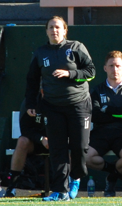 Laura Harvey (Seattle Reign FC)